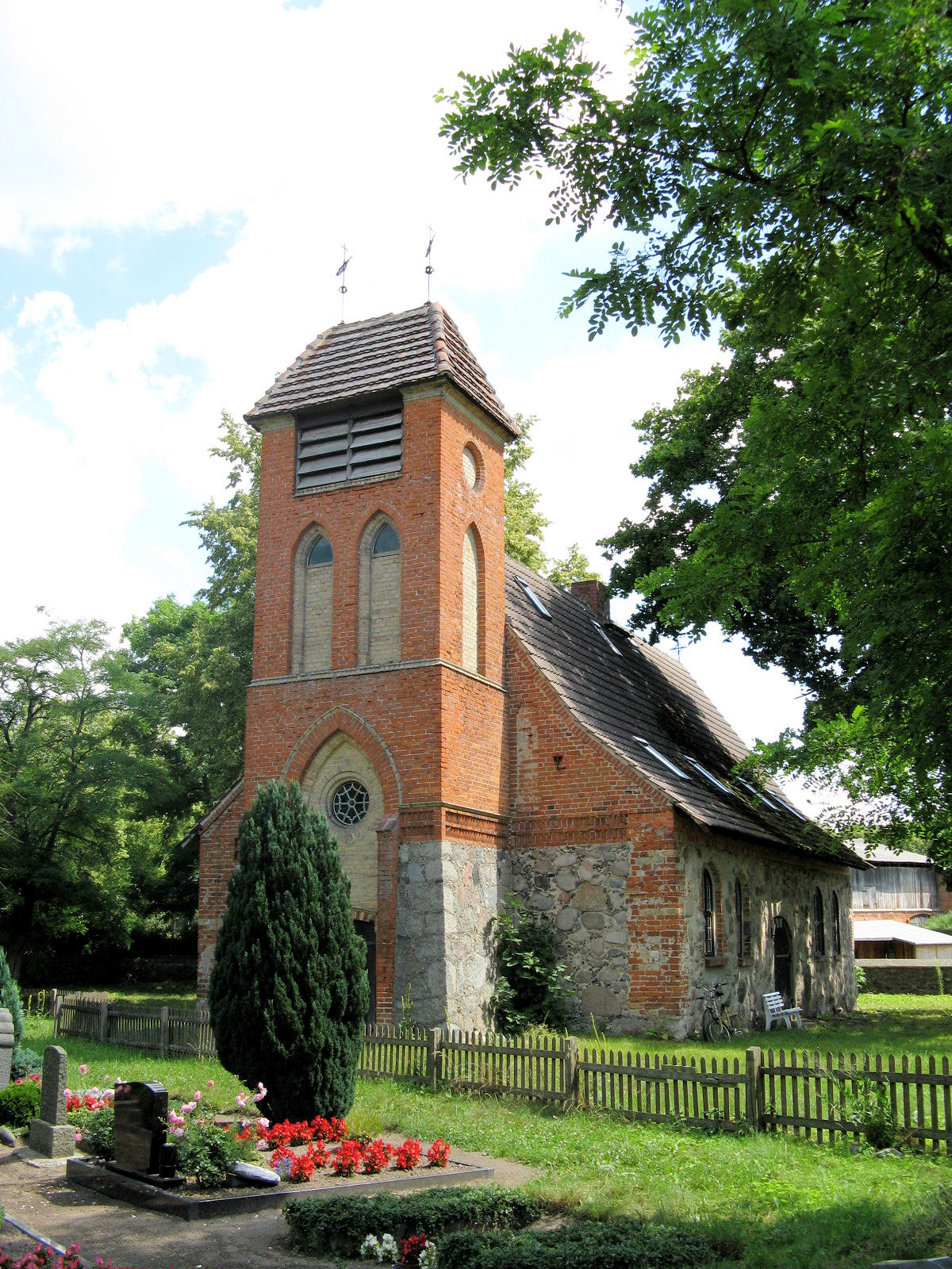 Church in Alt Sammit, disctrict Güstrow, Mecklenburg-Vorpommern, Germany